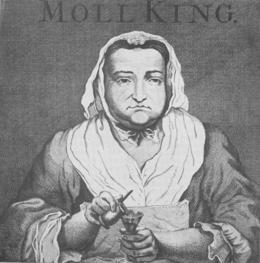 Print of Moll King of Tom King's Coffee House in Covent Garden fame